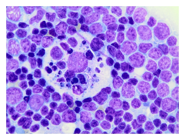 Histopathology of a tingible body macrophage